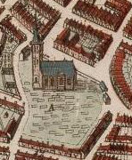 The Cathedral of Almenum drawn on a map of Harlingen 1664; This map labels the church with an A in the graveyard and the legend says "Den Dom van Almenum mit de Kerck